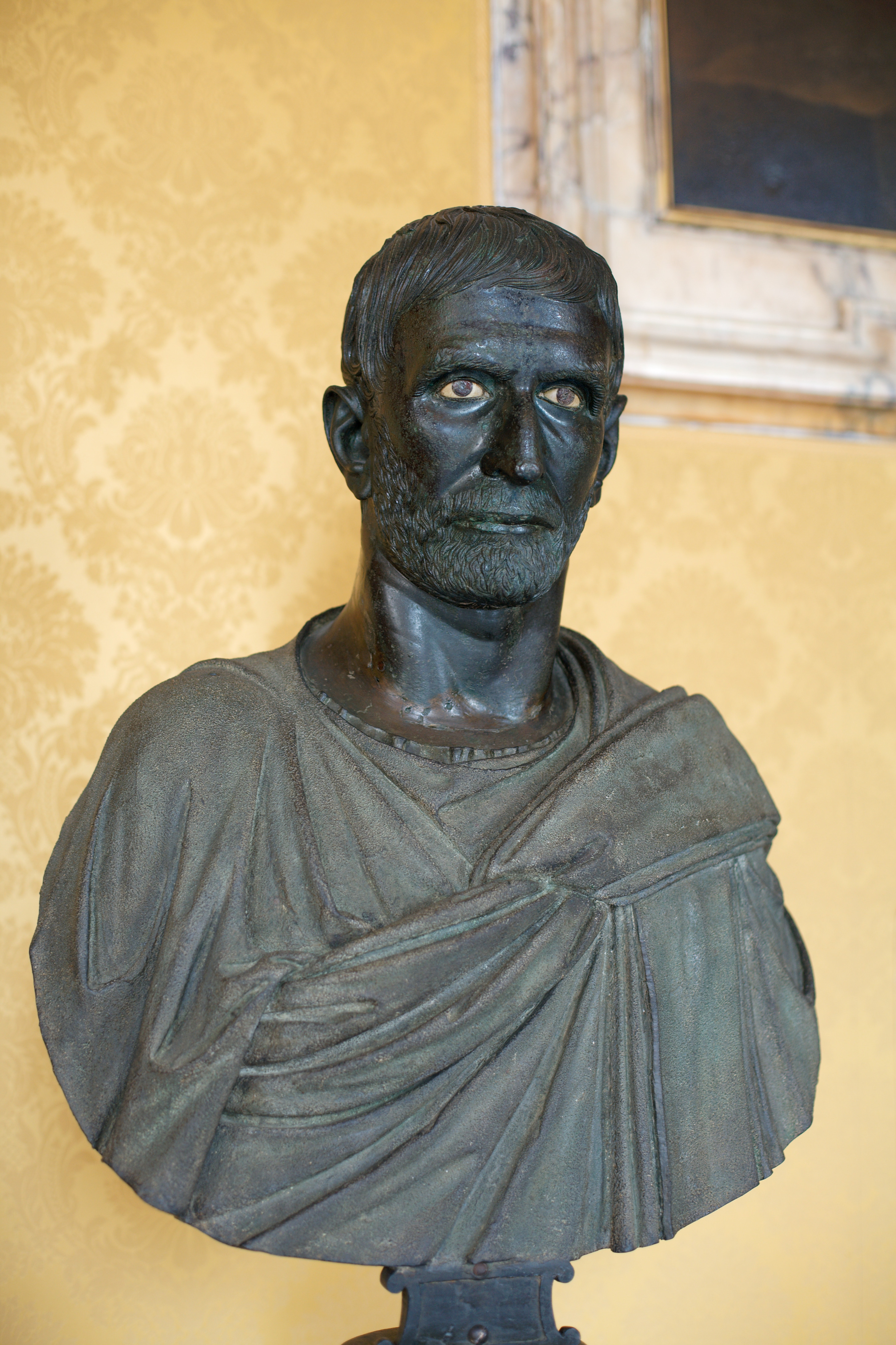 Roman artwork of the Republican Era, 4th-3rd centuries BC. The bust is a modern addition.